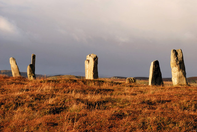 Calanais Stones III These stones, just south of the A858 around the village of Calanais, are often overlooked because 'The Calanais Stones' are just 0.75 of a mile west-northwest, which you can just make out mid right of the image. From these stones there is yet another circle, 0.17 of a mile south-southwest. If you visit you are more than likely to have both sets of 'lesser' stones to yourself.